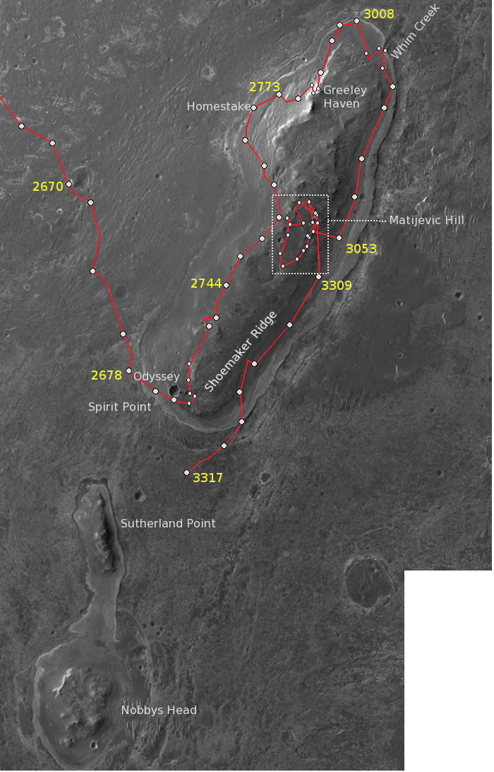 Opportunity's traverse on Cape York from Sol 2678 to Sol 3317 with some additional annnotations of the main features.